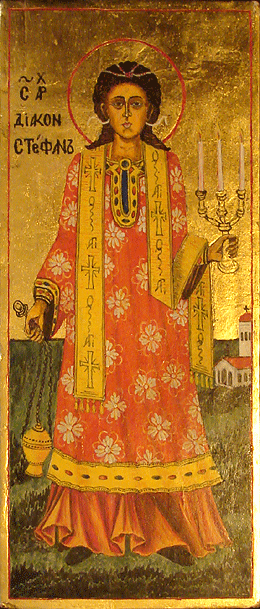 Icon of Saint Stephen